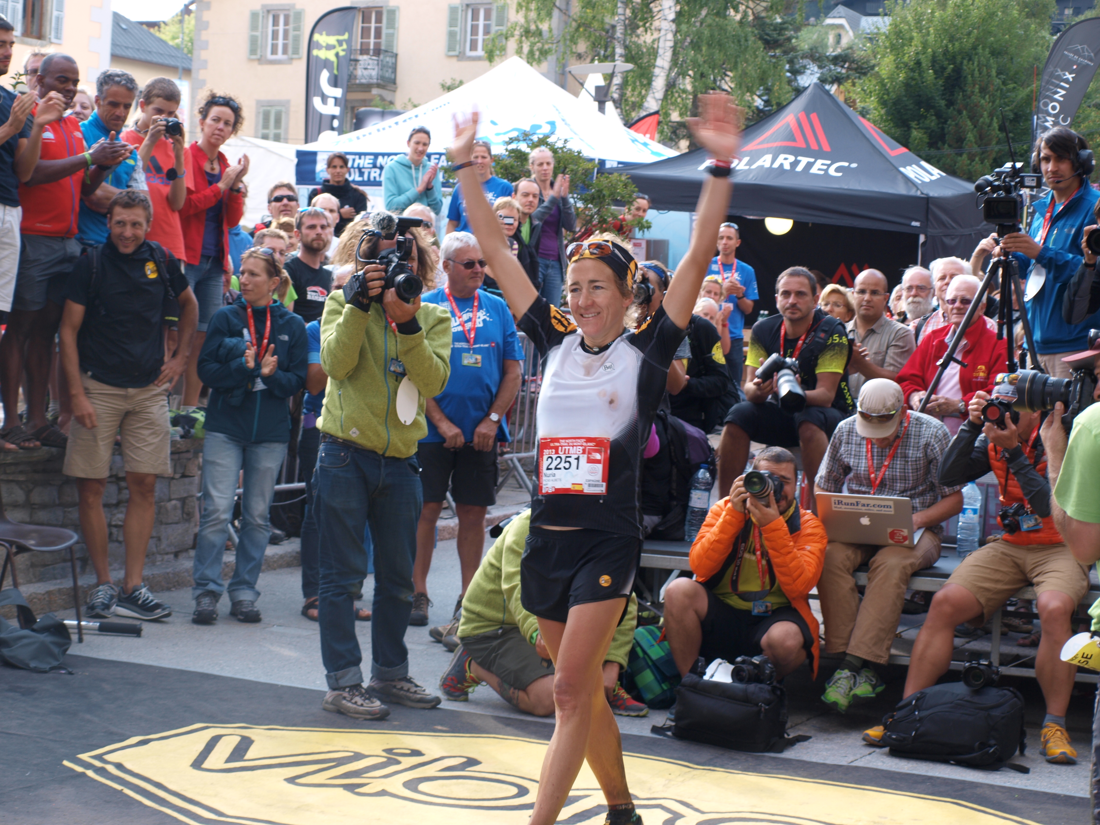 Núria Picas at 2013's Ultra-Trail du Mont Blanc finish line